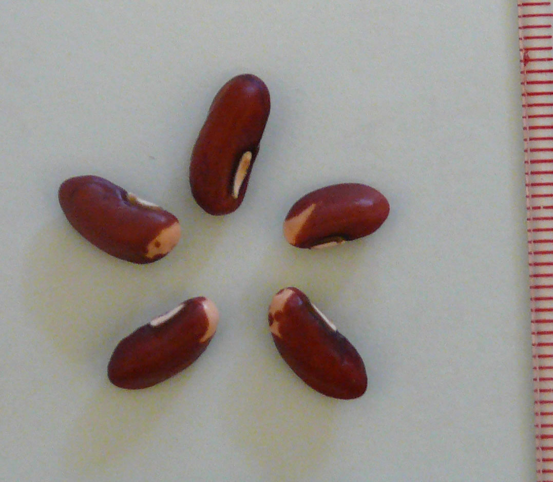 Seeds of yardlong beans, scale of the ruler is 1 mm, Photo taken in Hong Kong. Seeds of yardlong beans. The ones with white tips are those of the light green variety, while the one without the white tip is that of the dark green variety. Scale of the ruler is 1 mm.